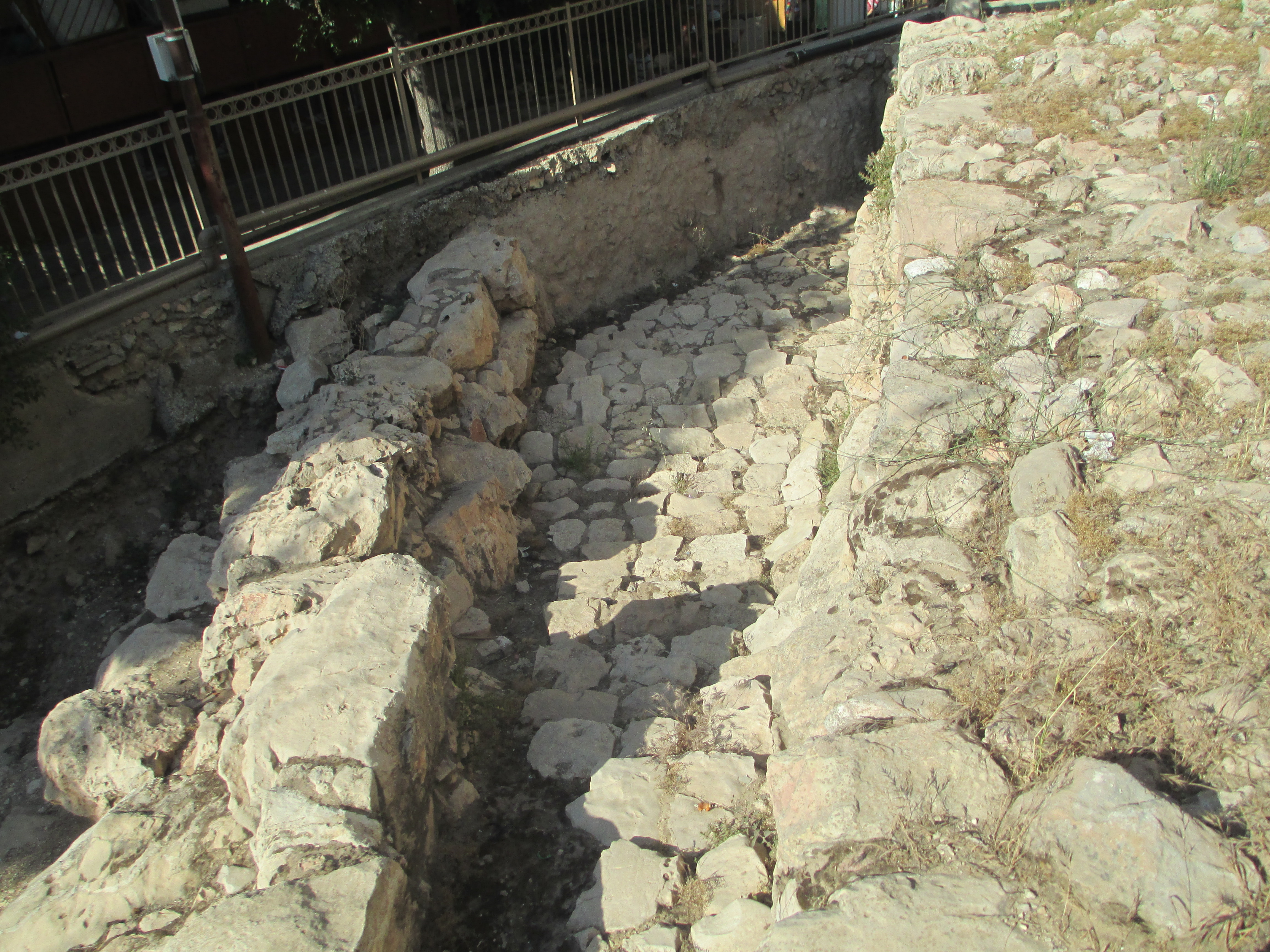 Tel Rumeida in Hebron